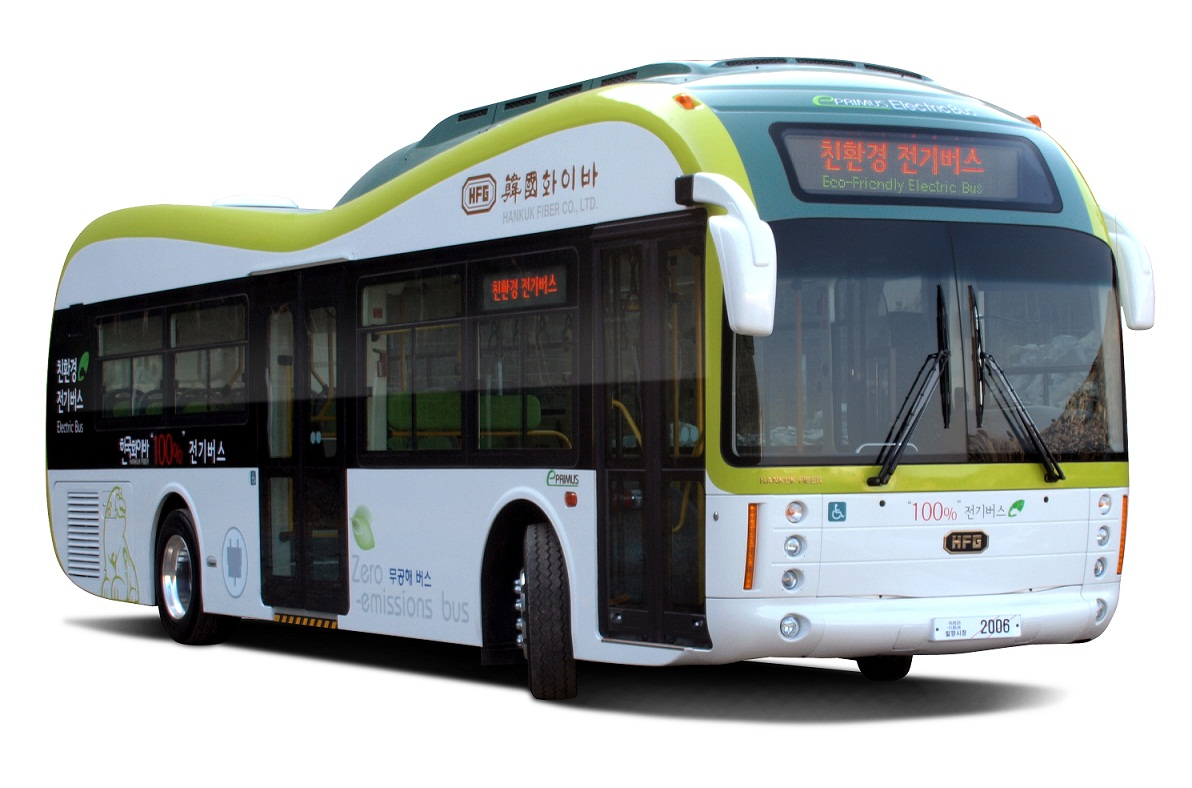 e-PRIMUS